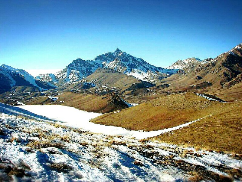 hashtad mountain in fereidunshahr